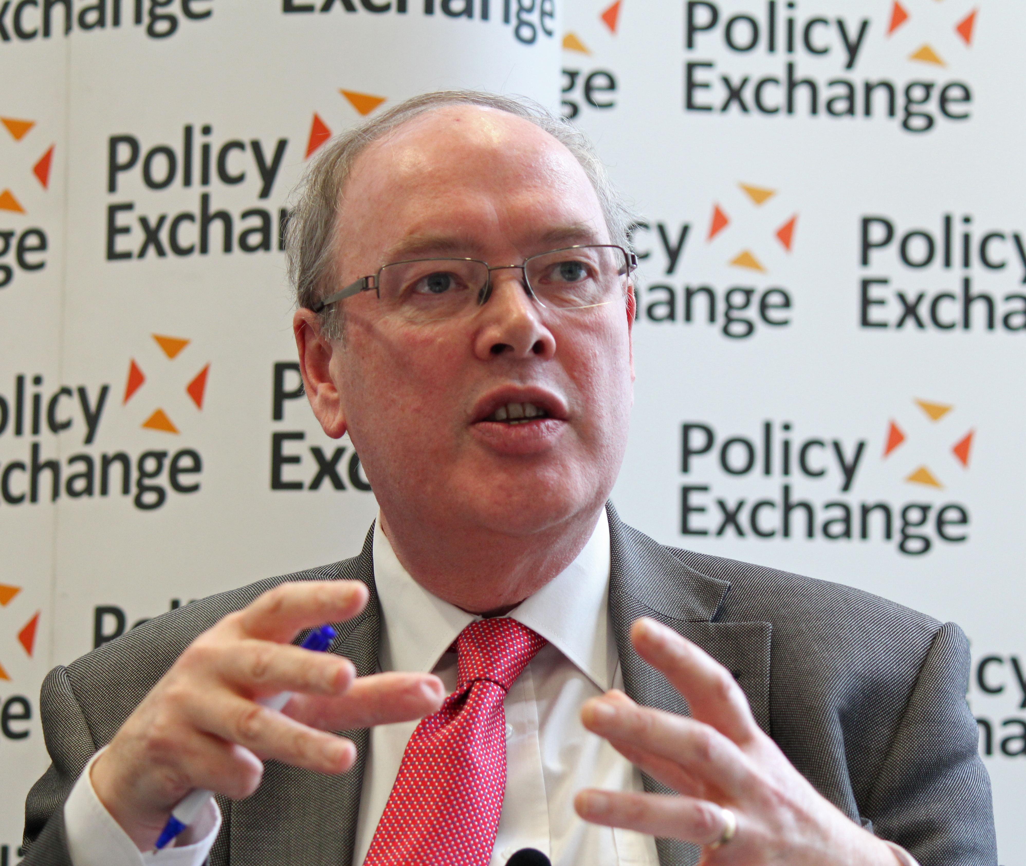 Dr Andrew Sentance CBE - Senior Economic Adviser at PwC and former member of the Bank of England's Monetary Policy Committee - at Global Growth- Challenge or opportunity for the UK? - 03.02.2013